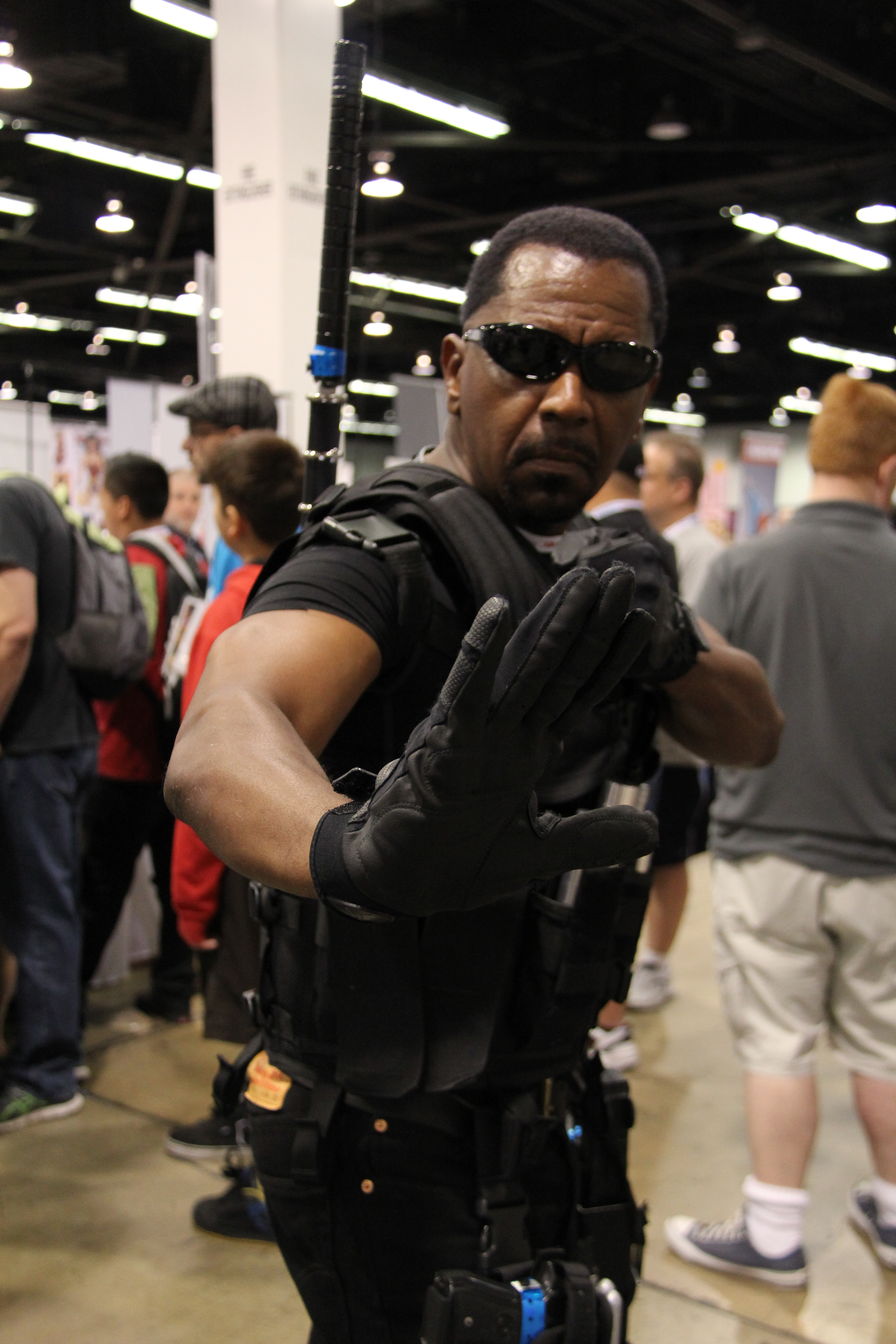 A cosplay of Marvel's Blade